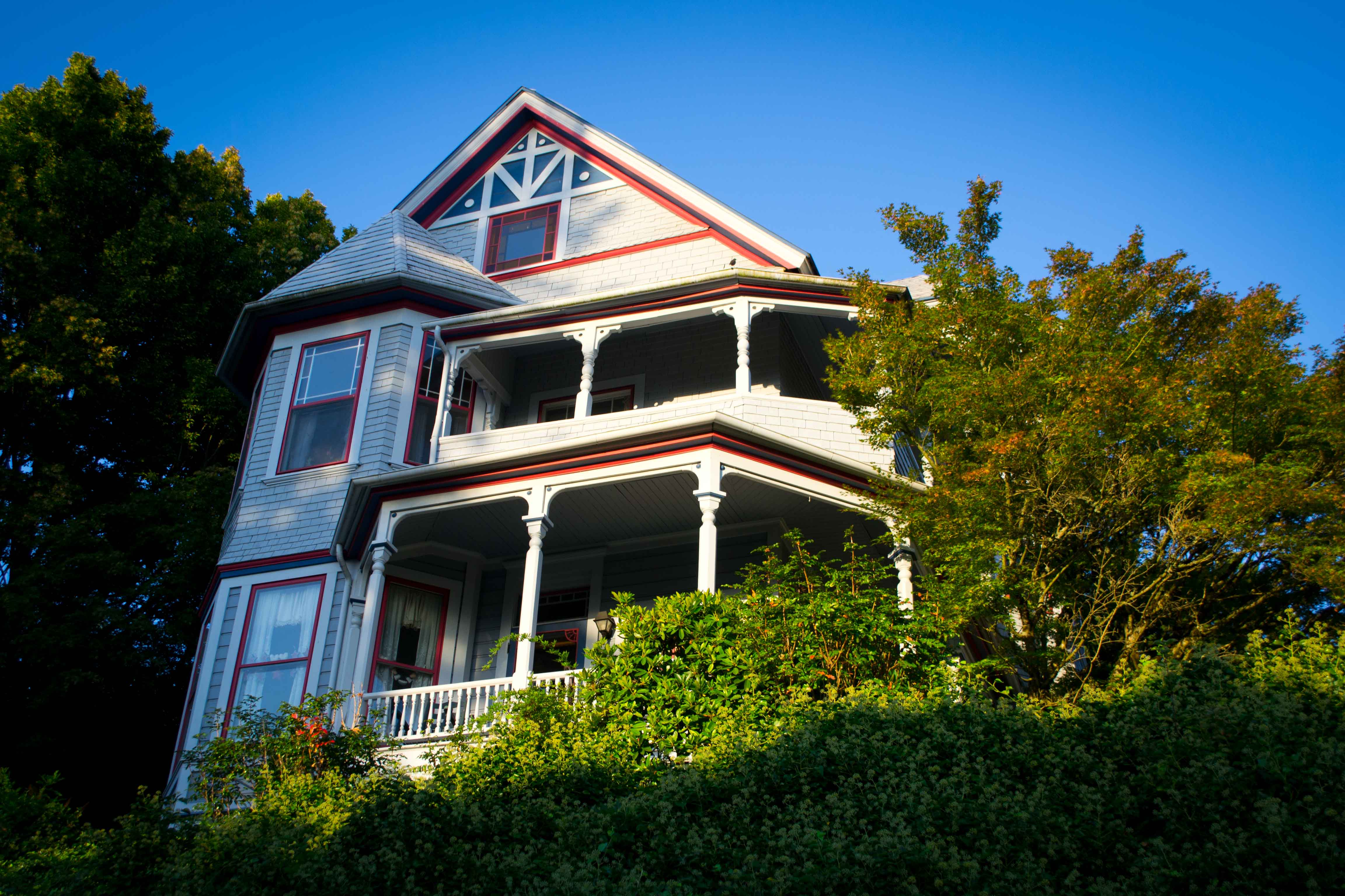 National Register of Historic Places listing in Portland, Oregon